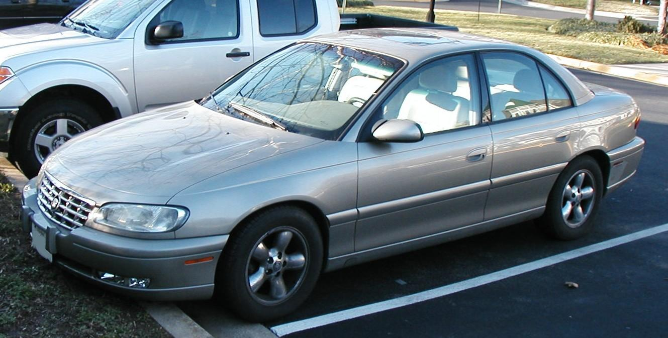 1997-1999 Cadillac Catera photographed in USA.